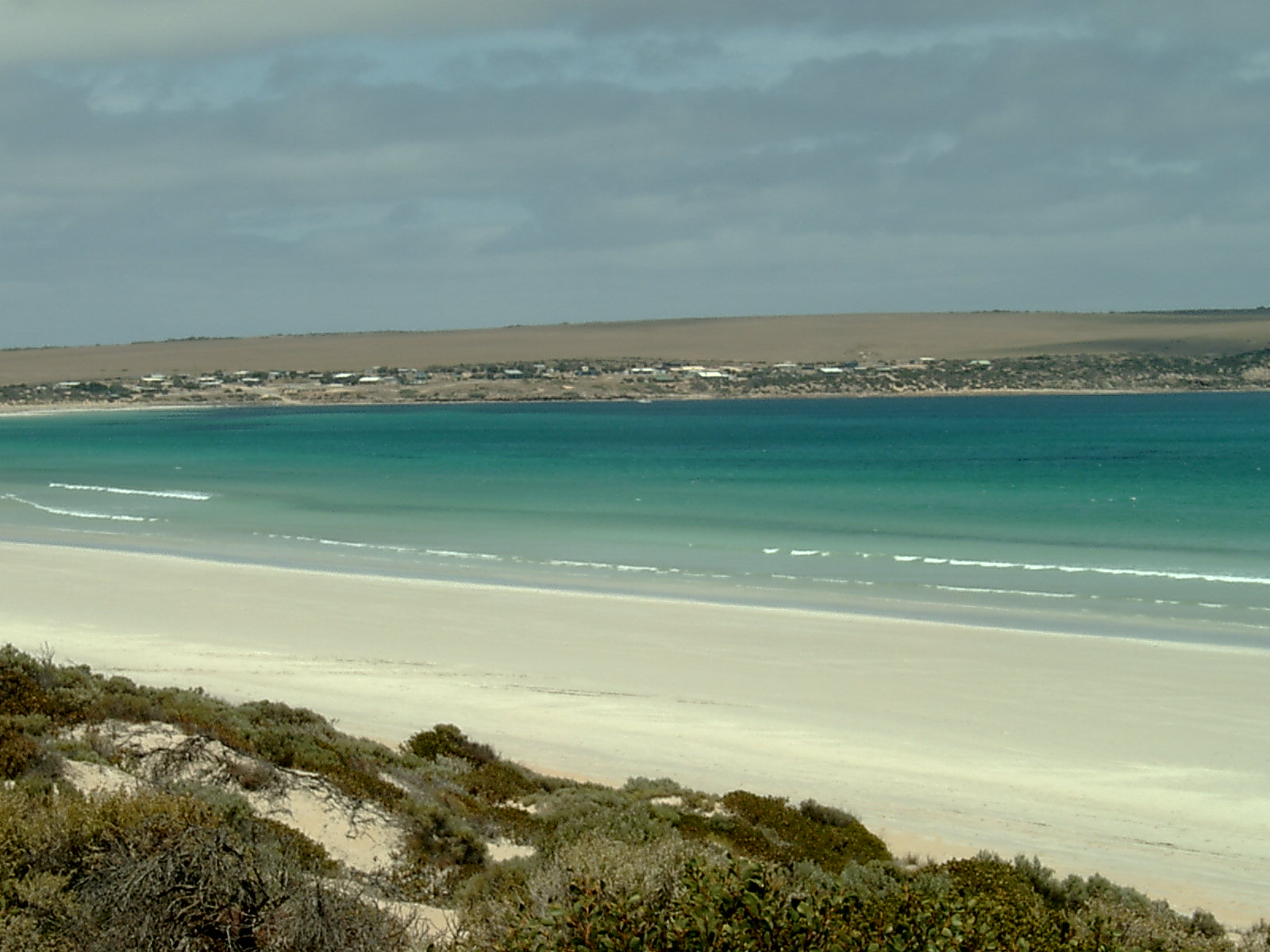 January 2007.